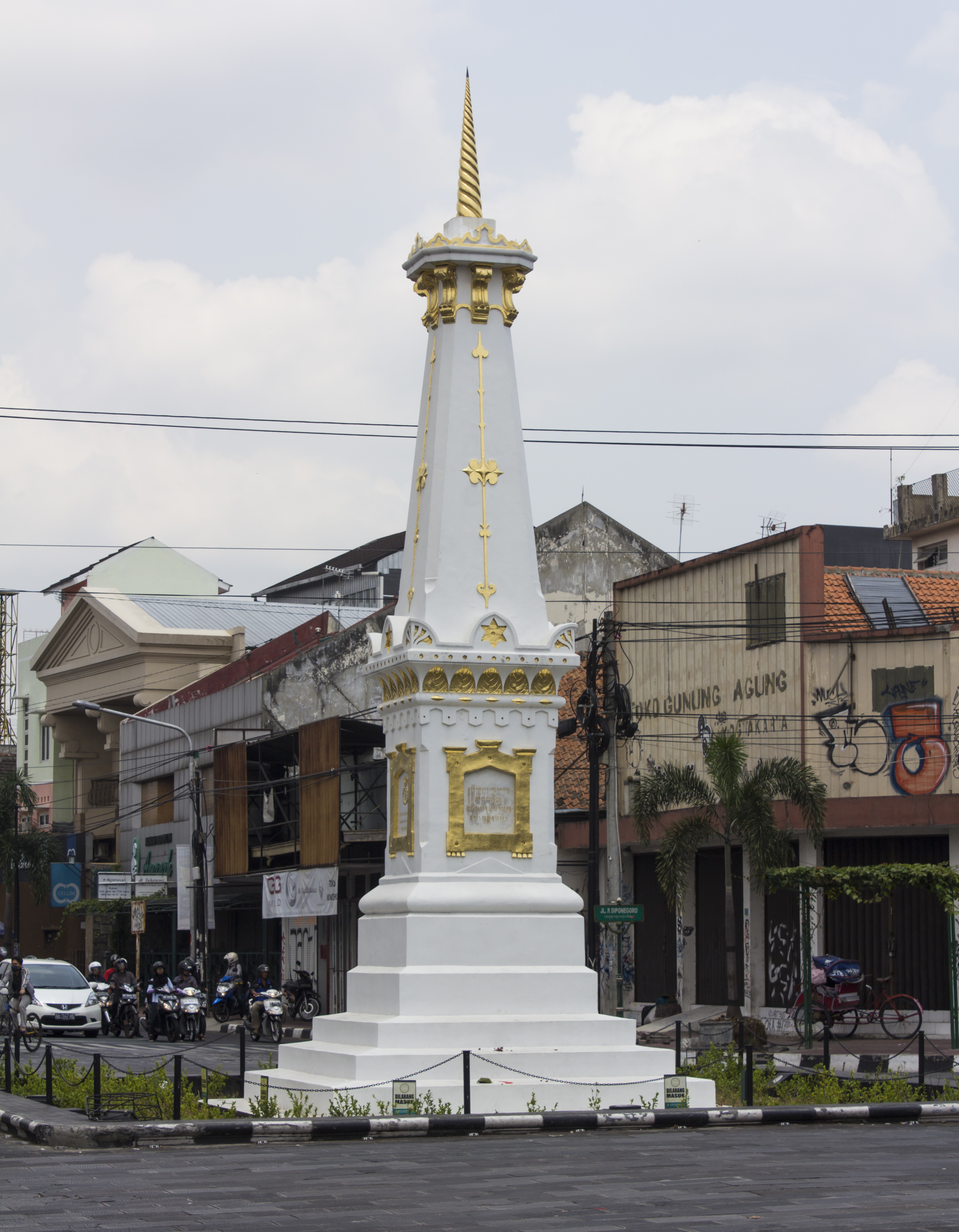 Tugu of Yogyakarta